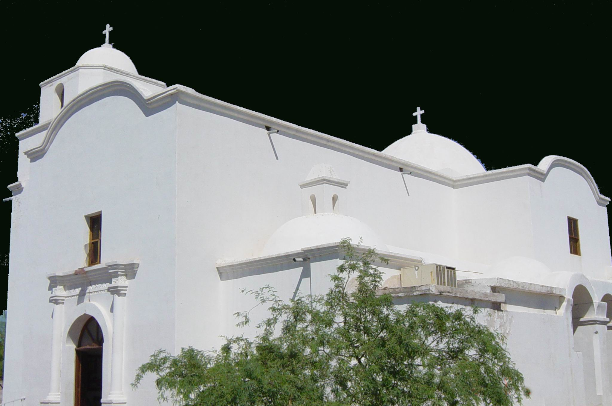 Mission San Diego del Pitiquito in the Sonoran Desert — in present day Pitiquito, Sonora (state), México. Founded by Jesuit missionary Eusebio Kino in 1689. Fotografía tomada por el usuario Scalif en Pitiquito Sonora México, en Agosto del año 2003.. El usuario declara que la fotografía es de su propiedad y autoriza el uso de la imagen bajo los terminos de documentación libre a Wikipedia. Usuario Scalif